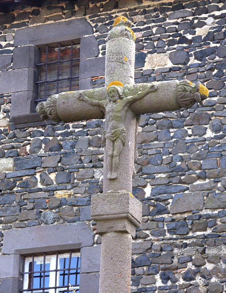 Cross in the village of Opme (Commune of Romagnat, Puy-de-Dôme, France)